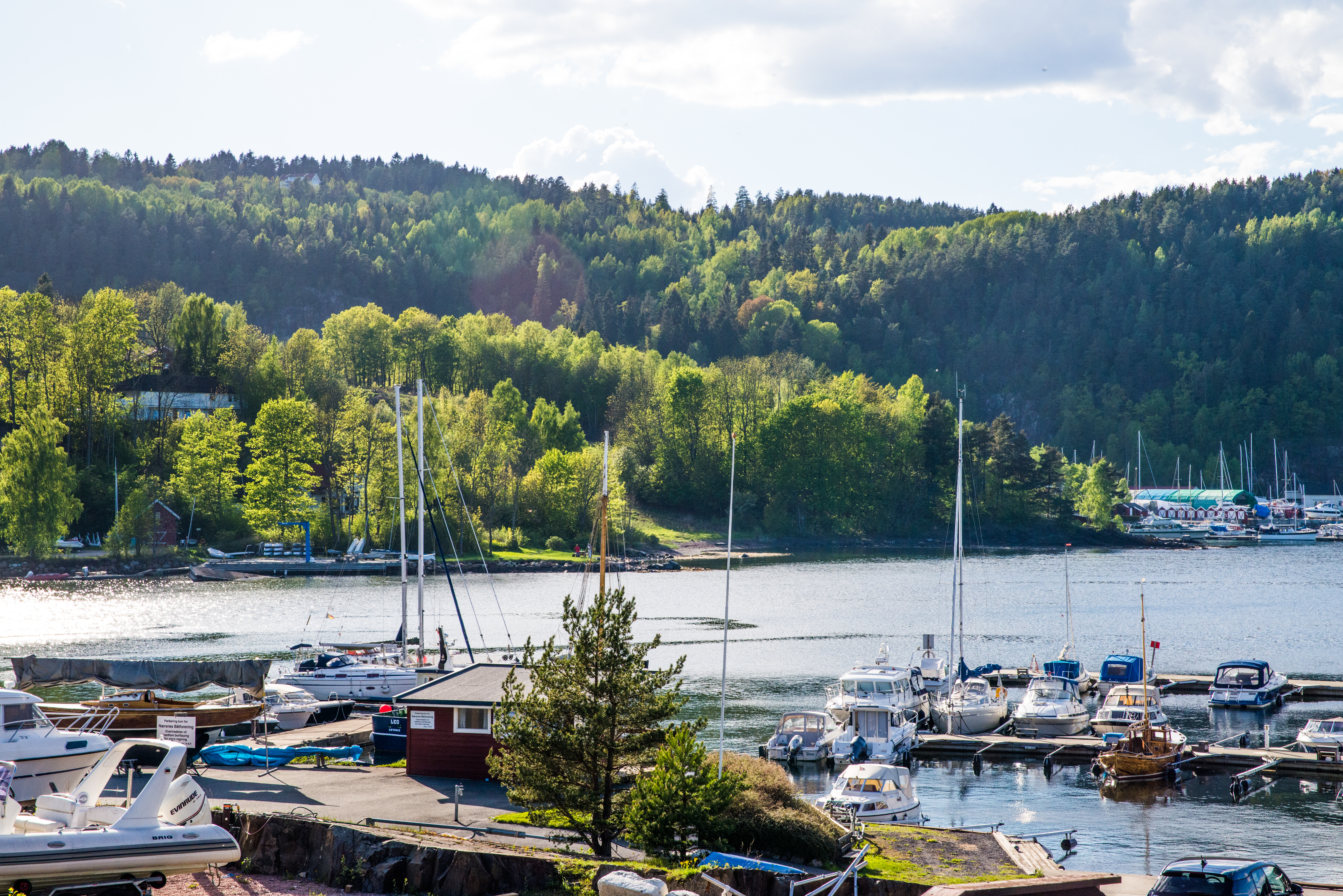 Nordre Nærsnes nature protection site, Nærsnes, Røyken, Norway